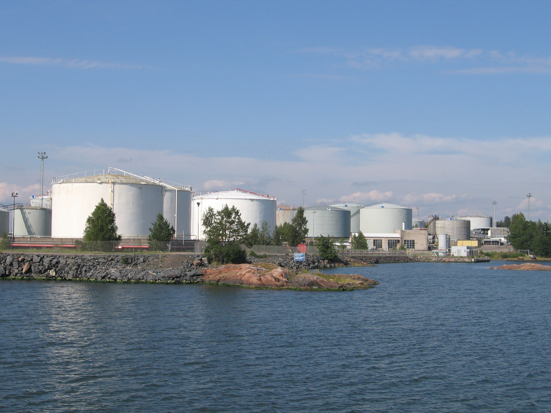 Laajasalo Oil Harbour in Helsinki, Finland